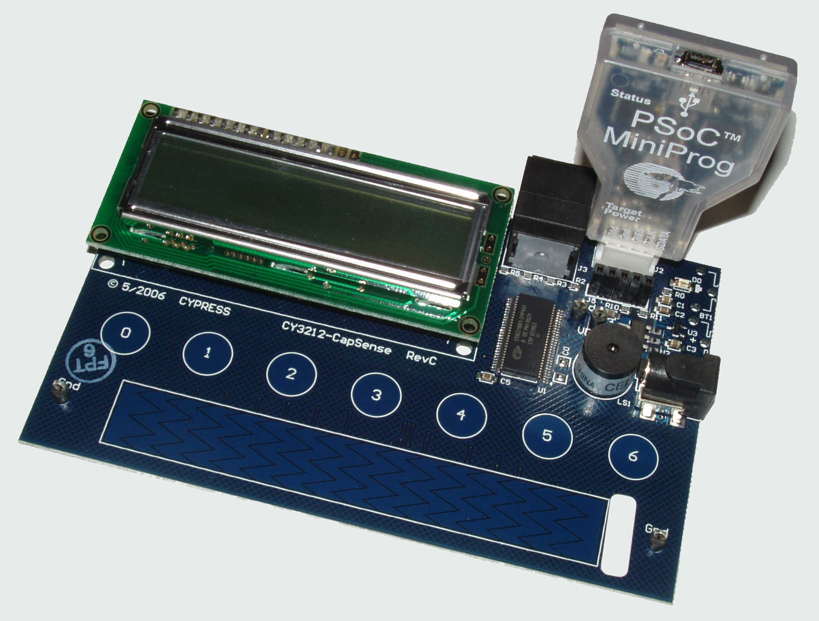 CY3212-CapSense - Development Kit for CapSense evaluation with Cypress PSoC Microcontroller